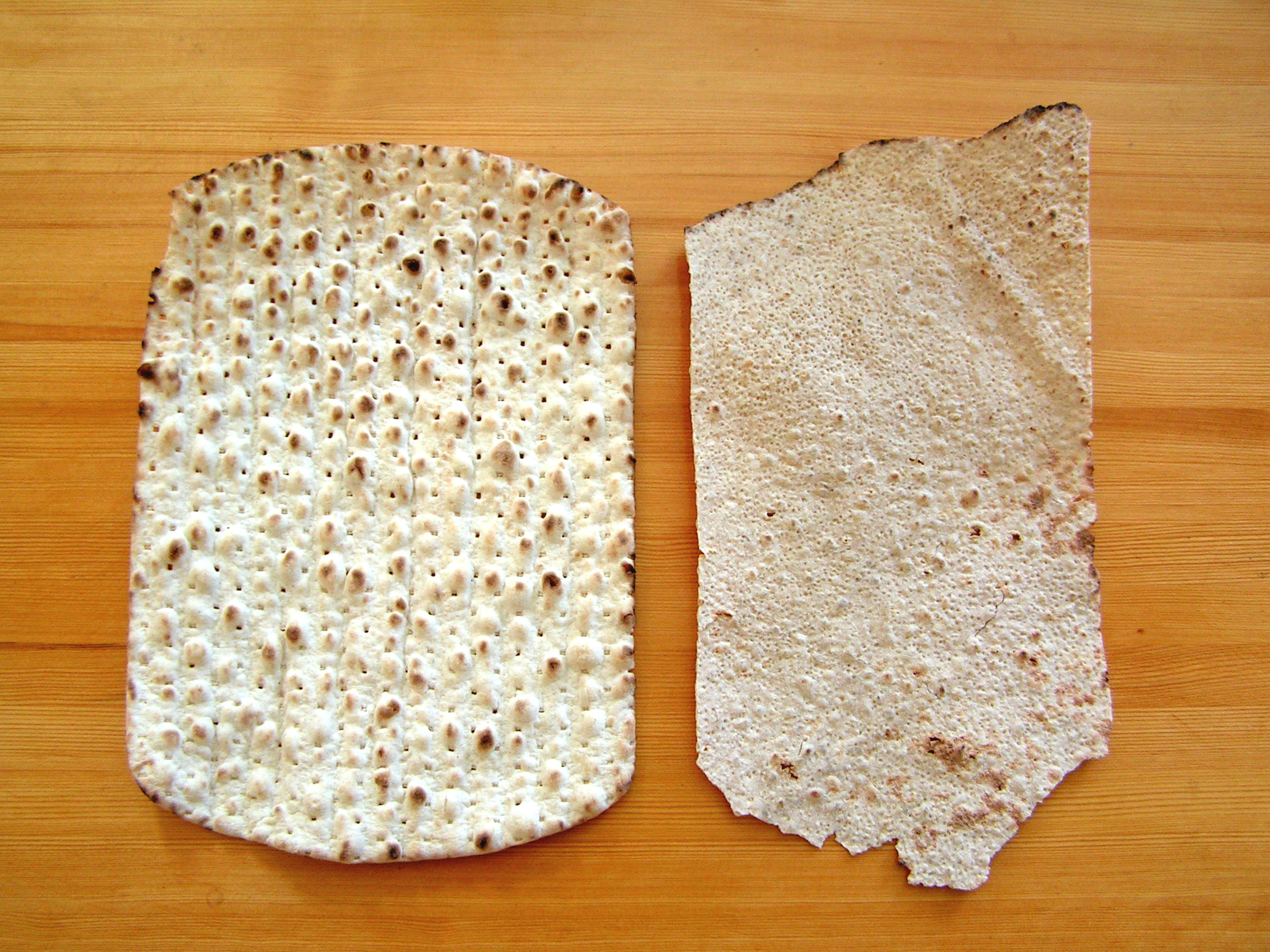 Thinbread from the northern part of Sweden. On the left side a modern bread made out of wheat, rye and yeast, on the right side a traditional bread made out of barley and milk